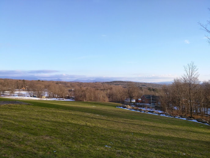 View overlooking the Westford community